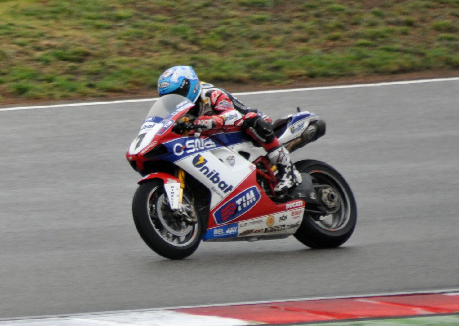 Portimão (Faro District, Algarve, Portugal), Algarve International Circuit, September 23, 2012. 2012 Superbike World Championship: #7 Carlos Checa's Ducati 1098R.